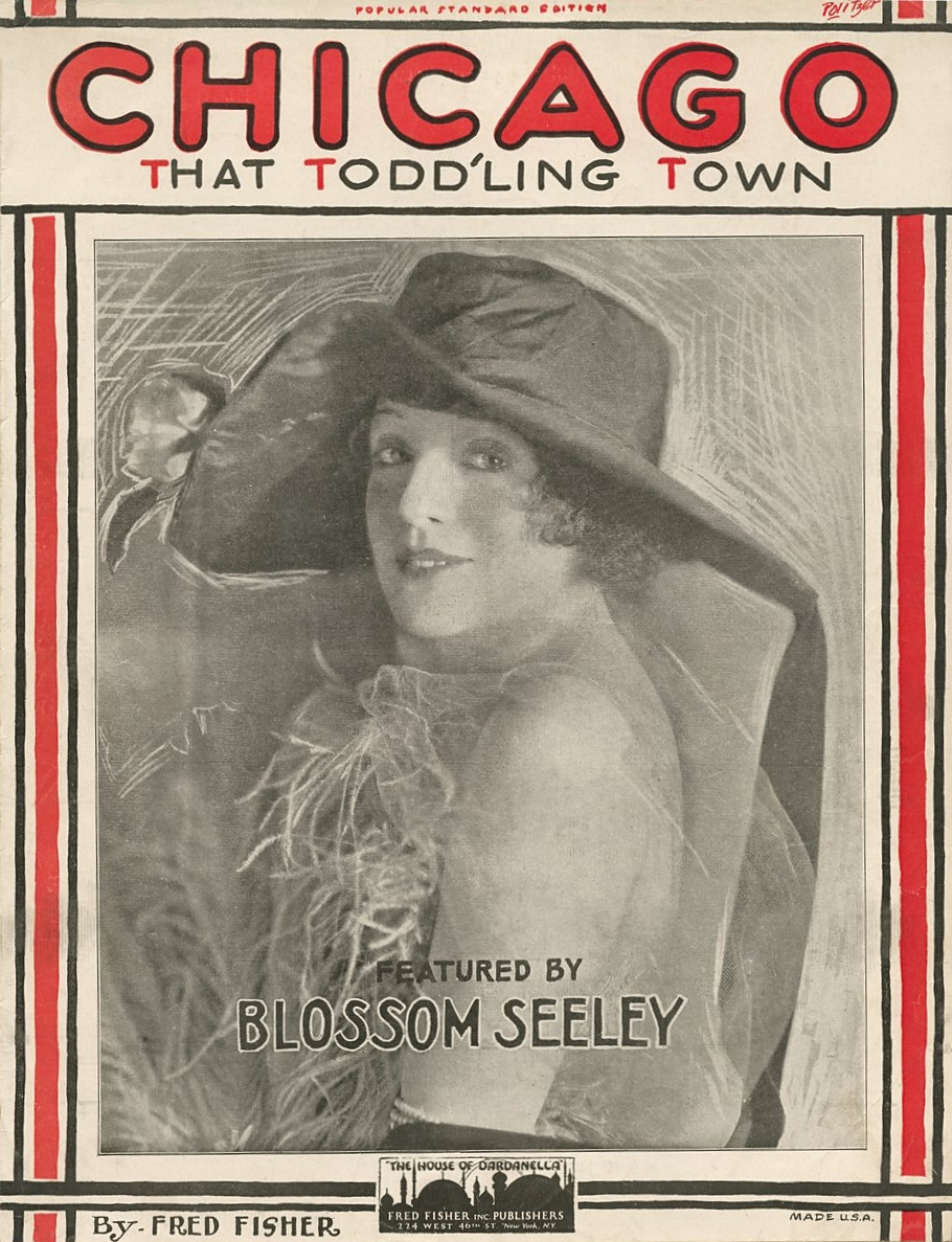 "Chicago -- That Todd'ling Town" sheet music cover, with photo of singer Blossom Seeley.